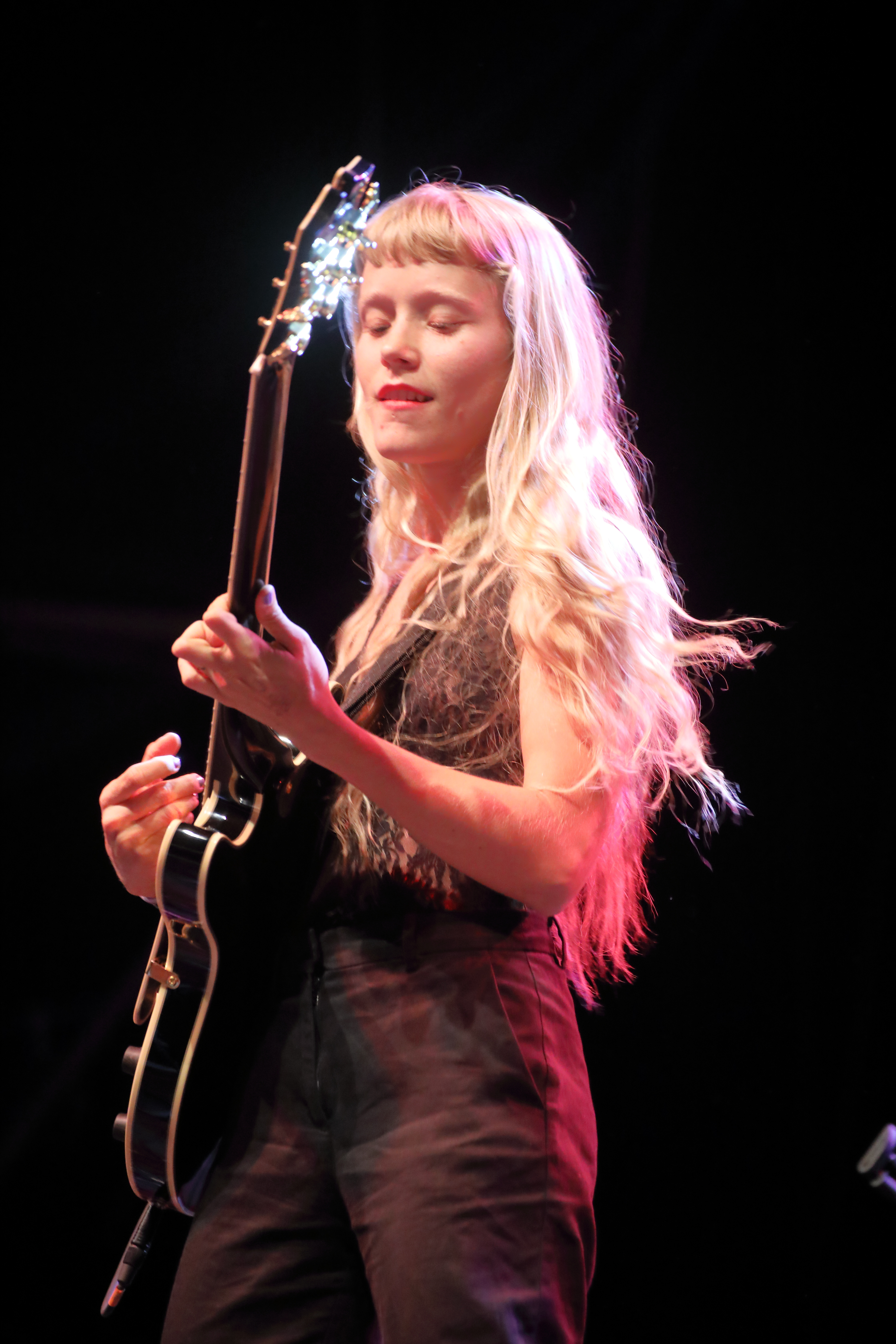 Singer-songwriter Alice Phoebe Lou from South Africa and her band at Rudolstadt-Festival 2019.